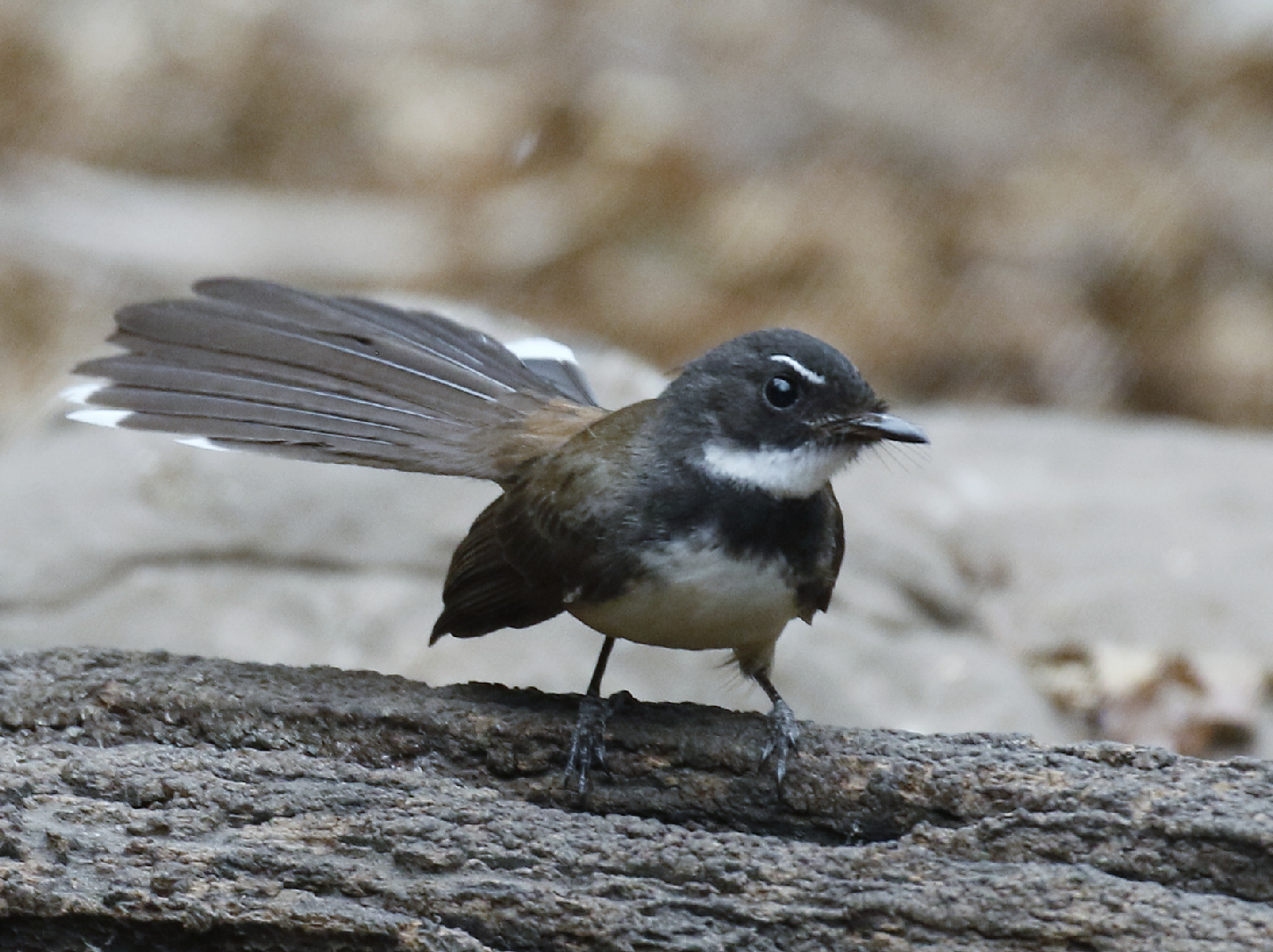 Kaeng Krachan Nat’l Park - Thailand